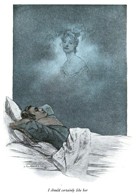 Illustration by John Cecil Clay for the short story "Marjorie Daw" by Thomas Bailey Aldrich, 1908. In the illustration, the character of John Flemming imagines Marjorie Daw. From an edition of the story published by Houghton Mifflin Company, 1908.